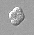 Picture from English Wikipedia. Ascus from Saccharomyces cerevisiae